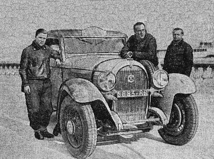 Entry #4 in the 1934 Rallye Monte Carlo is a Hotchiss AM 80 S 3,485 ccm (license "9683 RT"), driven by Louis Gas (left in picture) and Jean Trévoux (in the middle). They had started in Athens[1] and were also the winner this year!